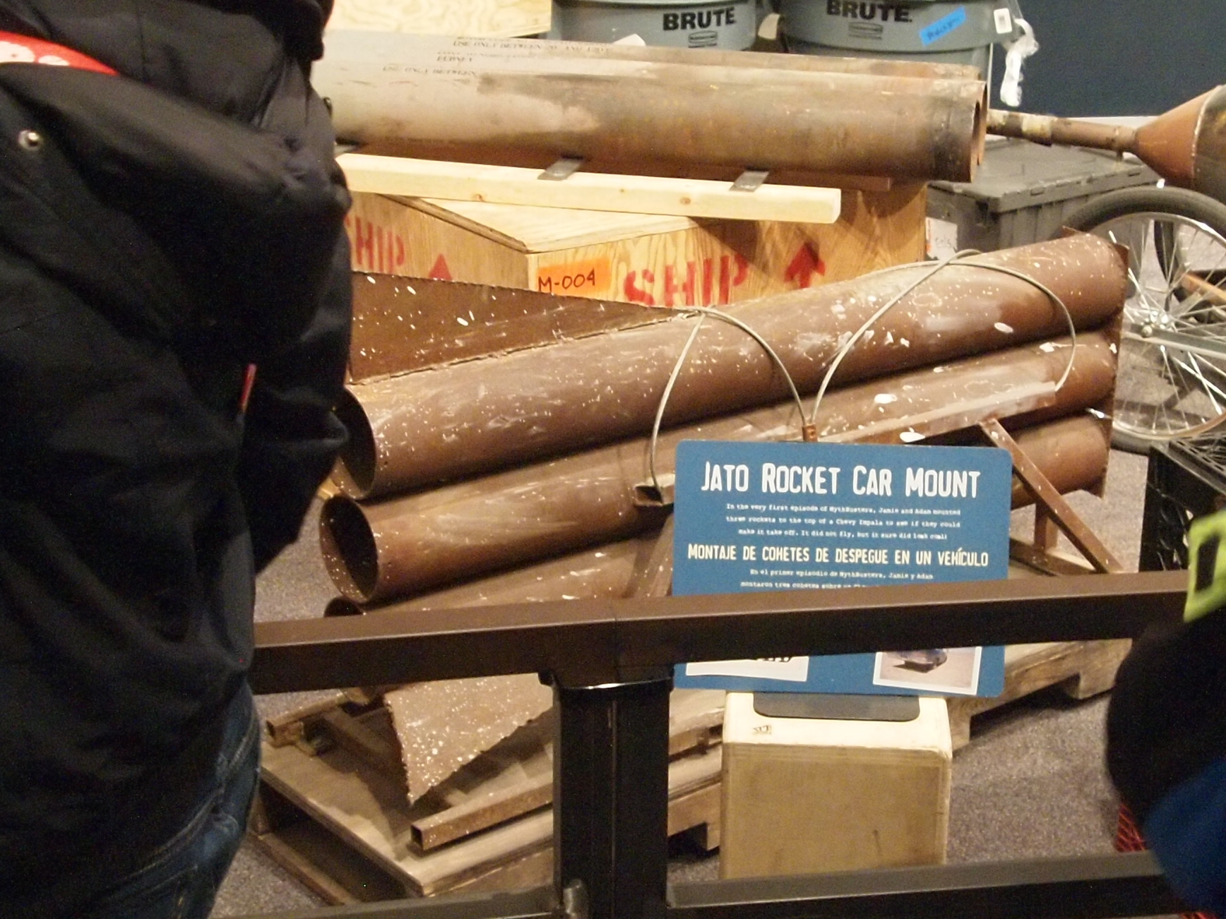 MythBusters Jato Rocket Car Mount